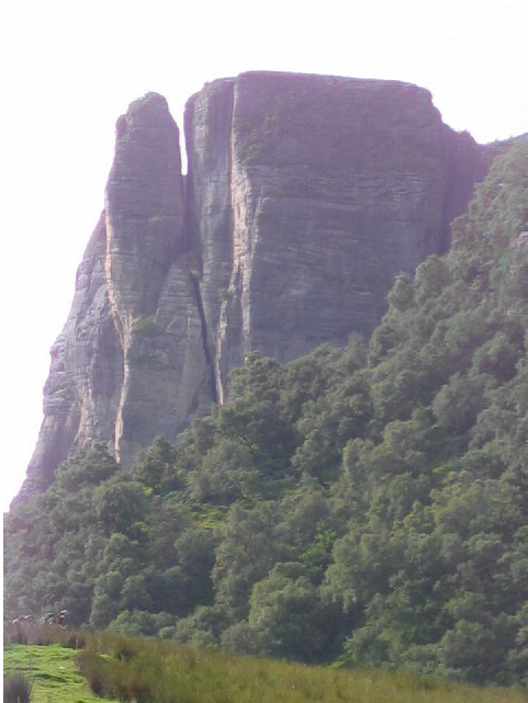 Cliffs at Creag na Bruaich, Raasay, Scotland